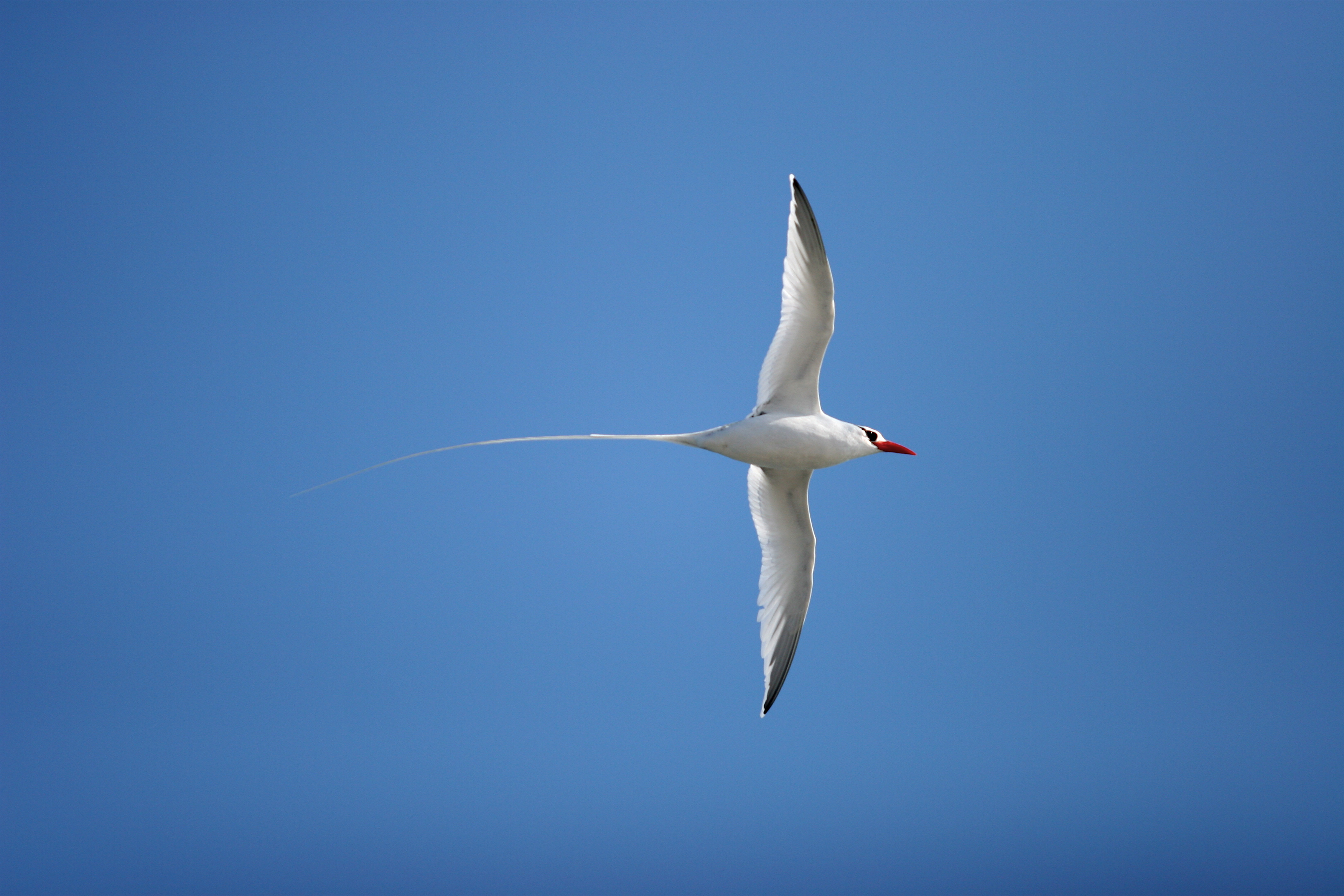 Phaethon aethereus subsp. mesonauta